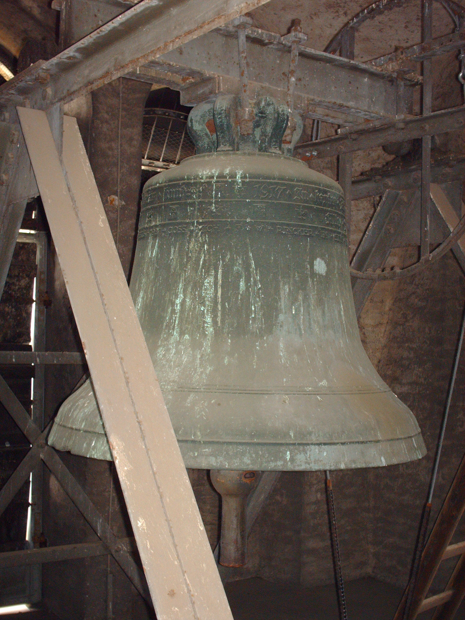 Bell in Johanneskirche, Gießen, Germany check usage